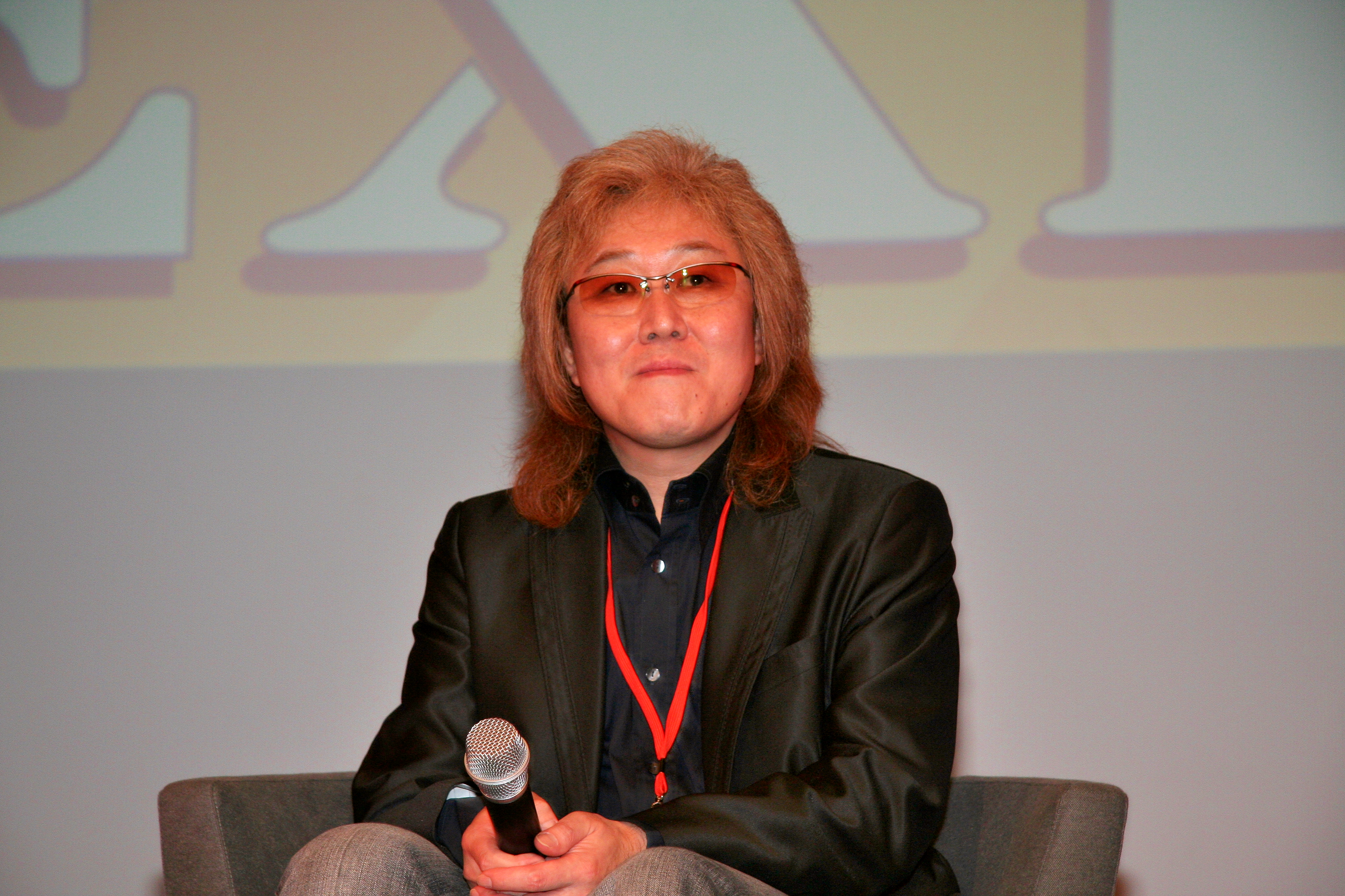 Conference with Kenji Kawai at Manga Expo 2007 (Paris, France).